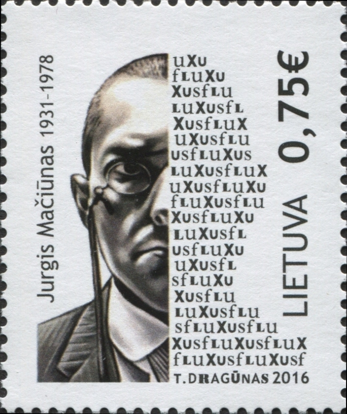 World famous people of Lithuanian Origin - Jurgis Maciunas